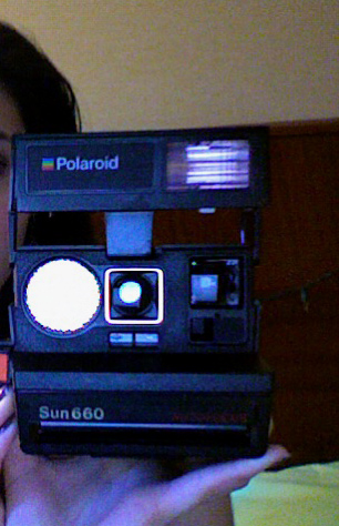 Sun 660 Autofocus Polaroid Camera